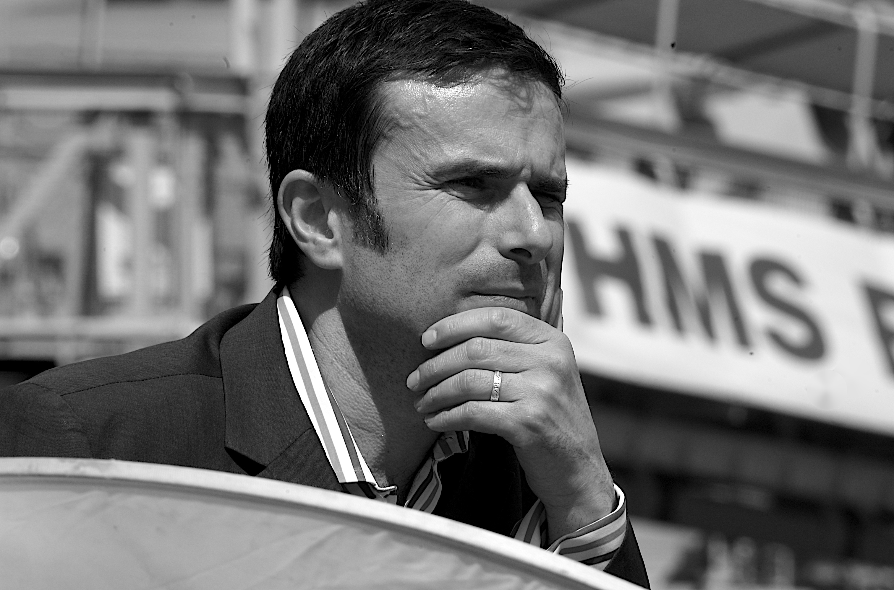 British journalist Robert Peston, mid-interview in London.